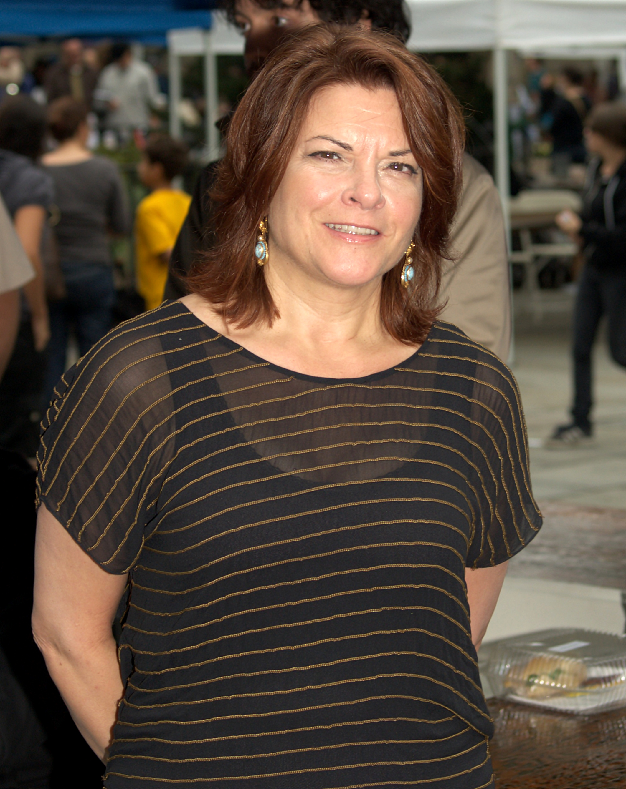 Rosanne Cash at the 2010 Brooklyn Book Festival.